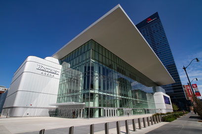 Exterior image of Wintrust Arena Chicago